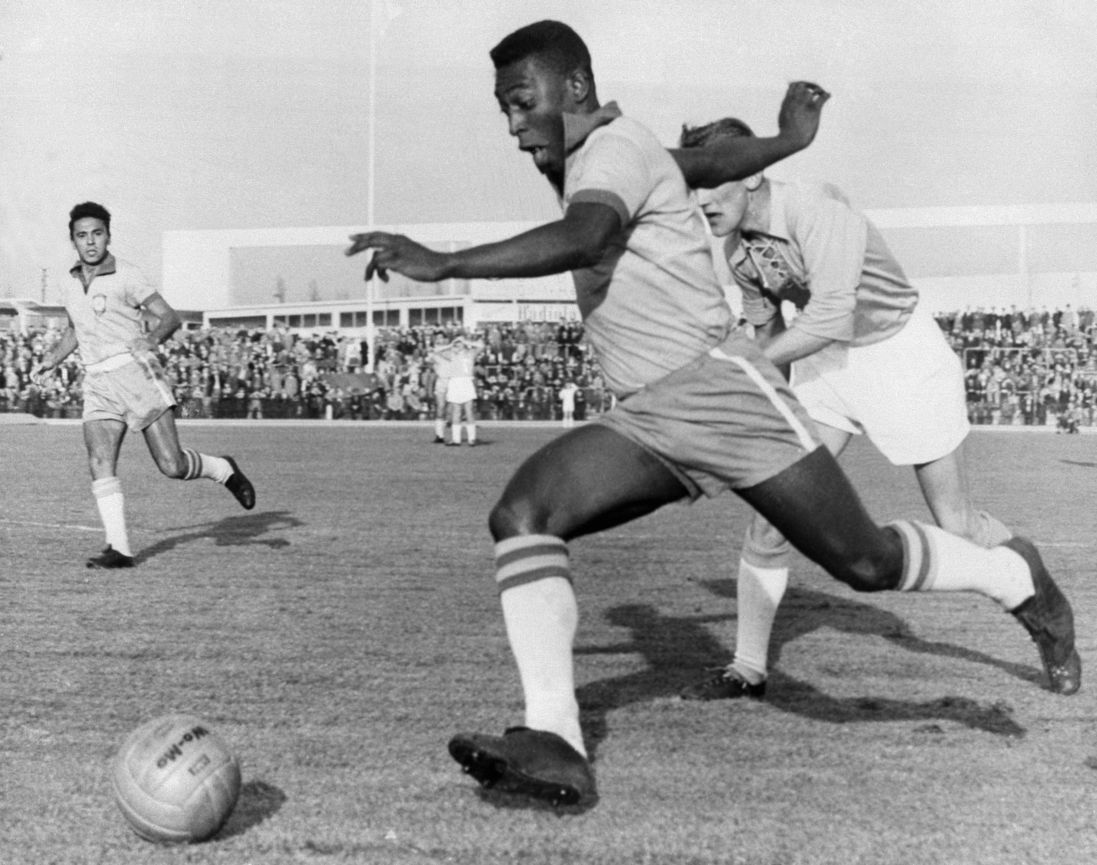 Pelé dribbling past a defender during Malmö-Brazil 1-7 (Pelé scored 2 goals) at Malmö city stadium.